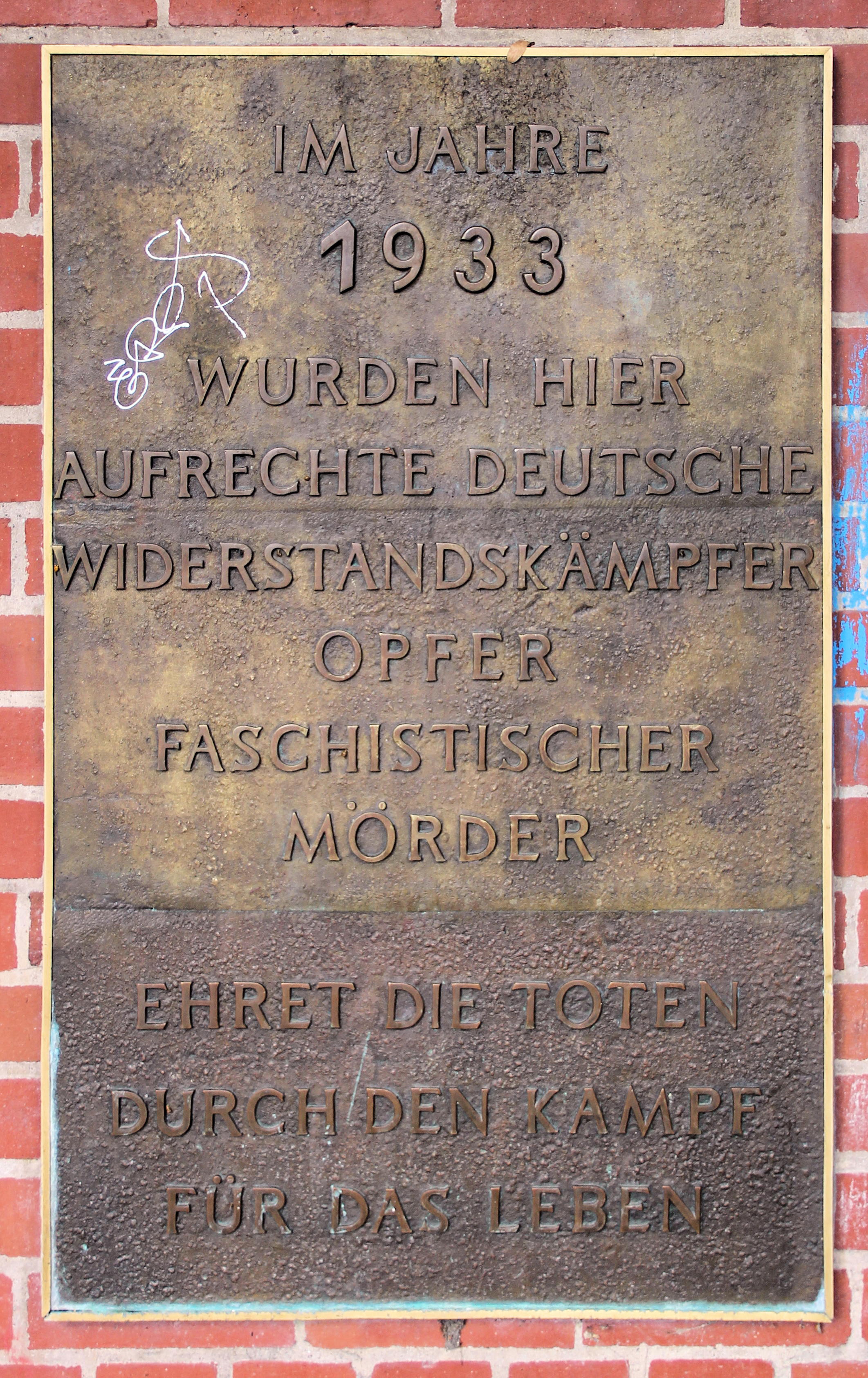 Memorial plaque, NS Opfer, Knaackstraße 23, Berlin-Prenzlauer Berg, Germany Koordinate:52°32′3″N 13°25′9″E / 52.53417°N 13.41917°E